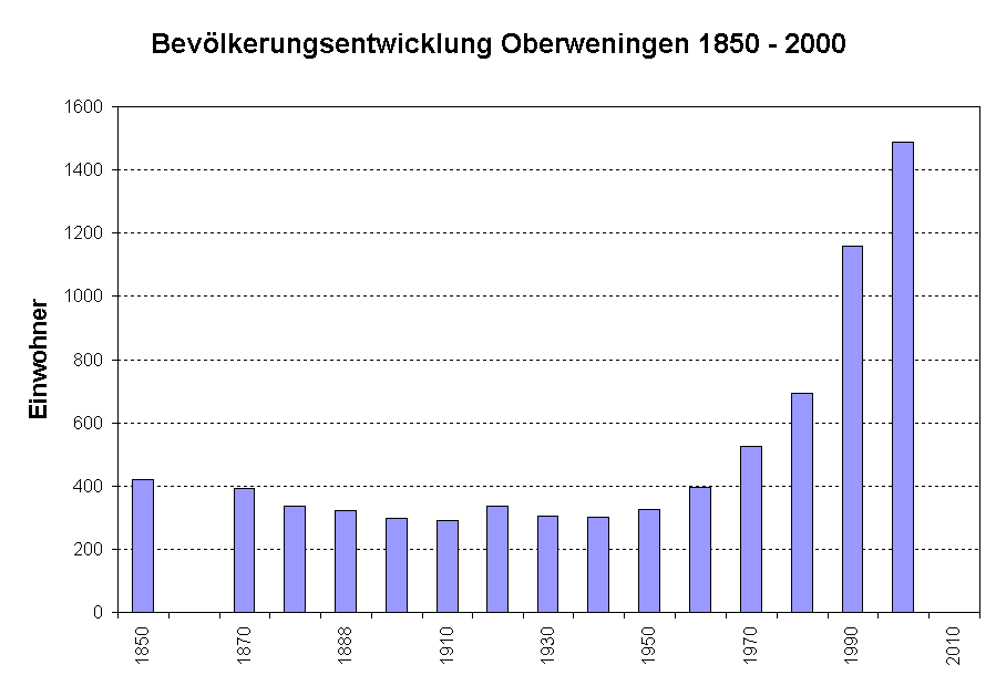 Development of Population in Oberweningen